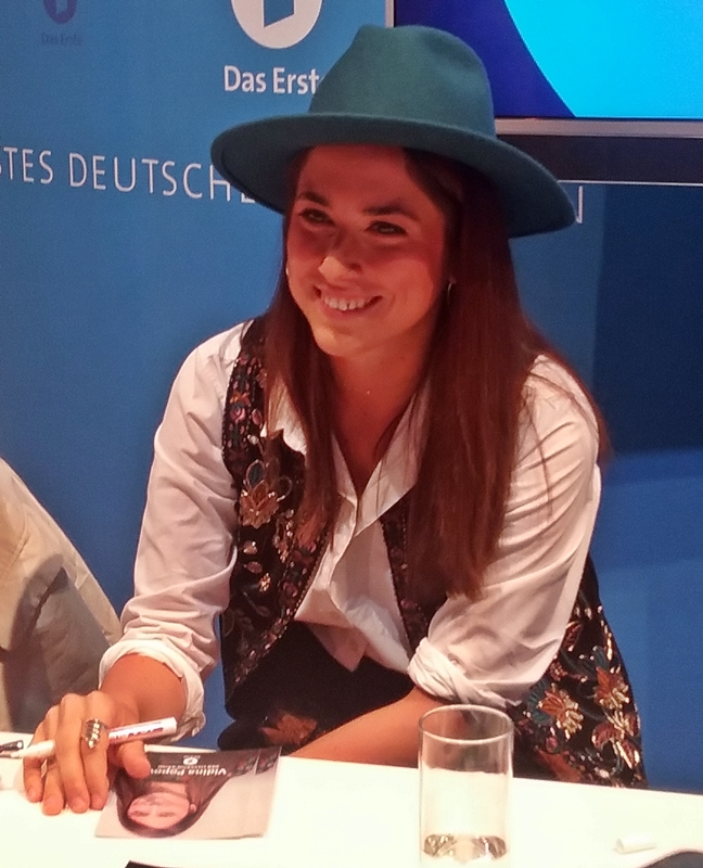 Vidina Popov signs autographs at IFA 2018